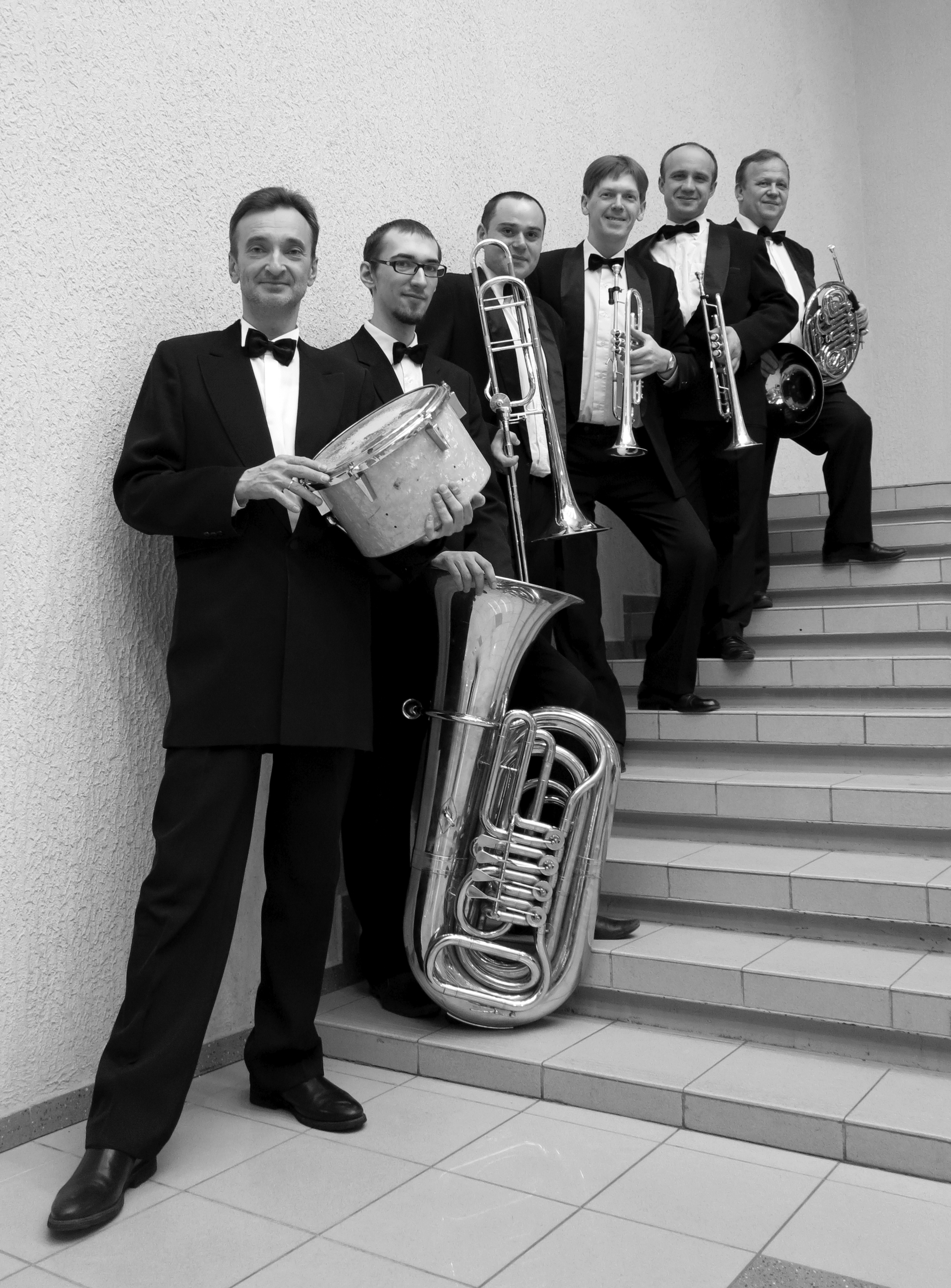 Karelia-Brass